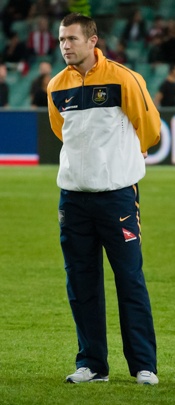 Brett Emerton attending the Australian national football team against Paraguay at the Sydney Football Stadium.